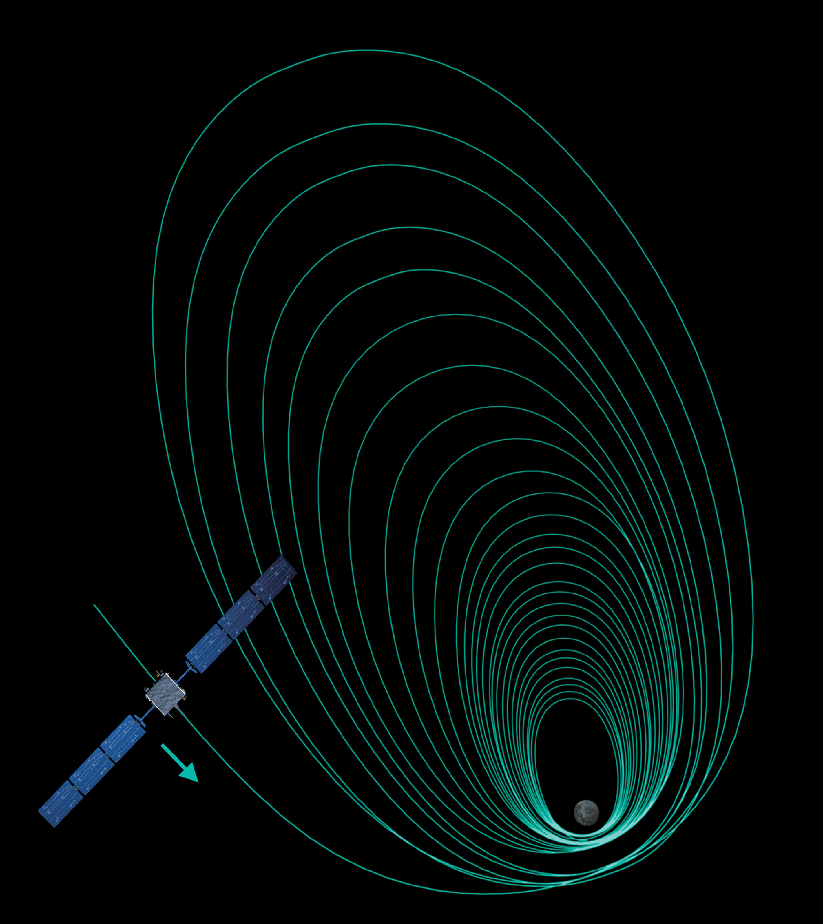 Once SMART-1 has been captured by the Moon's gravity, it begins to work its way closer to the lunar surface. SMART-1 is Europe's first mission to the Moon. The scientists taking part have a 21st-Century view of our companion in space, which makes our connection with it more intimate than ever. The Moon is no longer seen merely as a satellite, but as the Earth's daughter, forming a double planet.